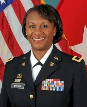 Photo of Gwen Bingham, Commandant of U.S. Army Quartermaster School and 51st Quartermaster General